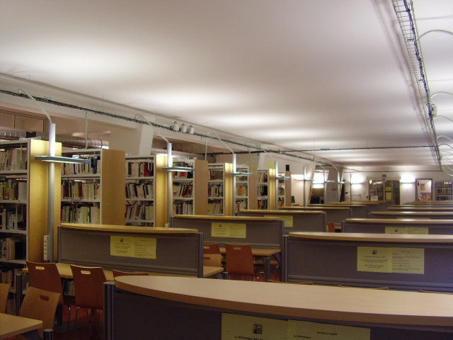 General view of the reading room of the Social Sciences Library of Paris Descartes University/CNRS. It has been created in 2006 from the merging of different libraries of Paris Descartes University (Paris 5) and CNRS Sociology Library and is the main sociological library in france.